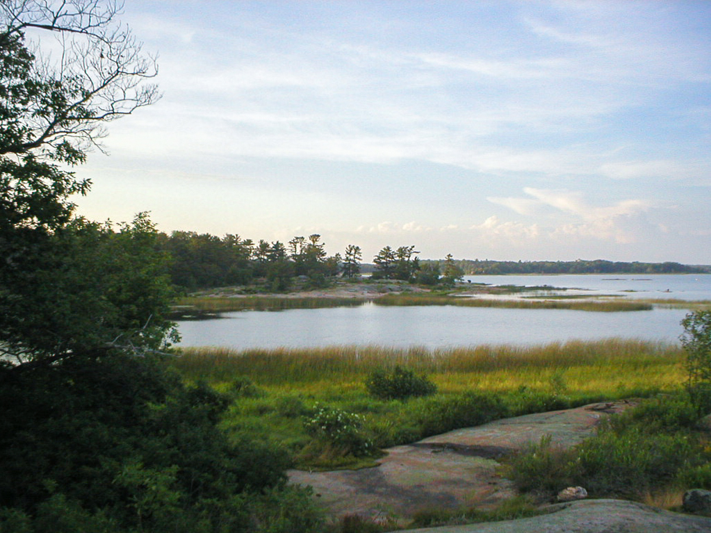 John Kavanagh